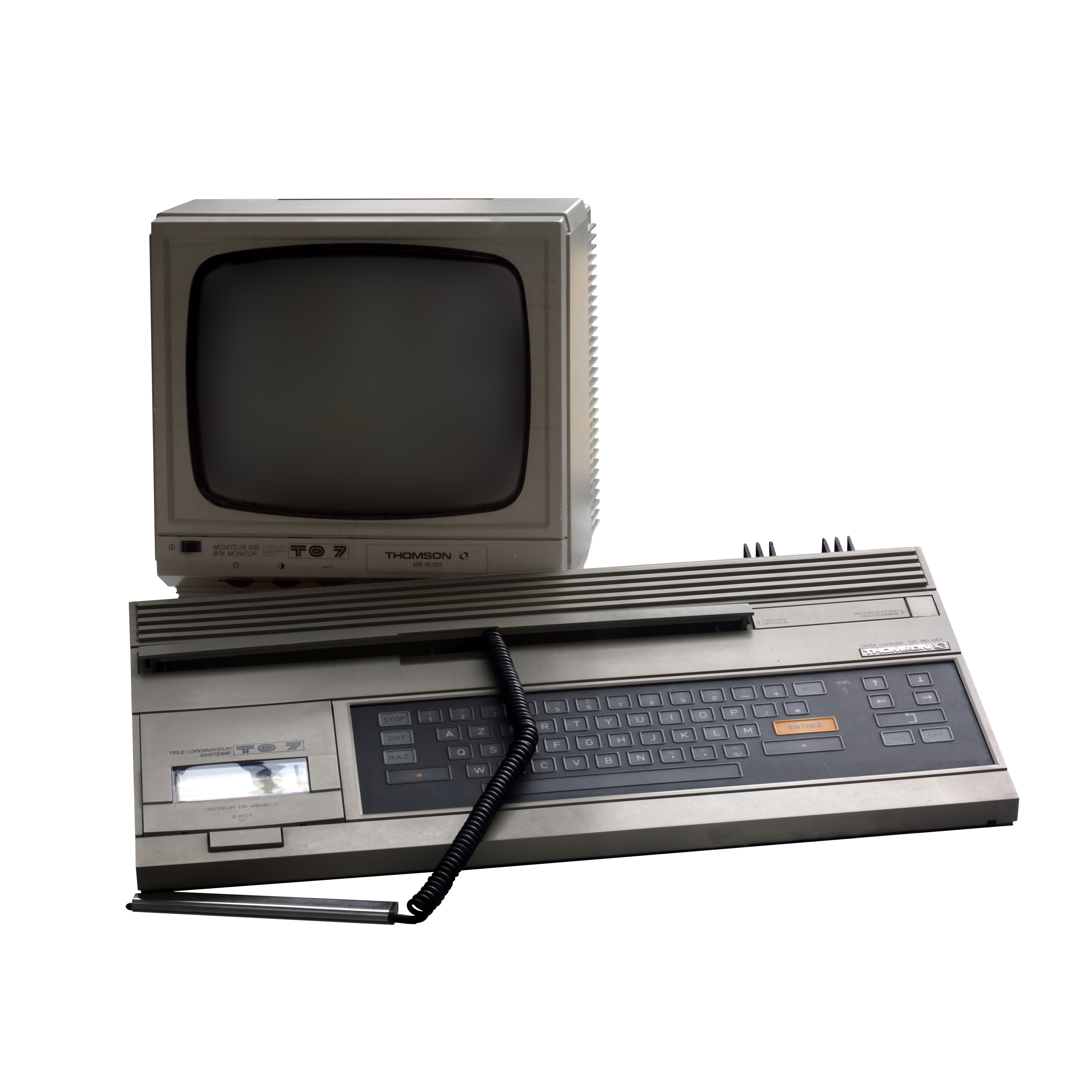 Thomson TO7 computer. On display at the Musée Bolo, EPFL, Lausanne. The making of this document was supported by Wikimedia CH.(Submit your project!) For all the files concerned, please see the category Supported by Wikimedia CH.